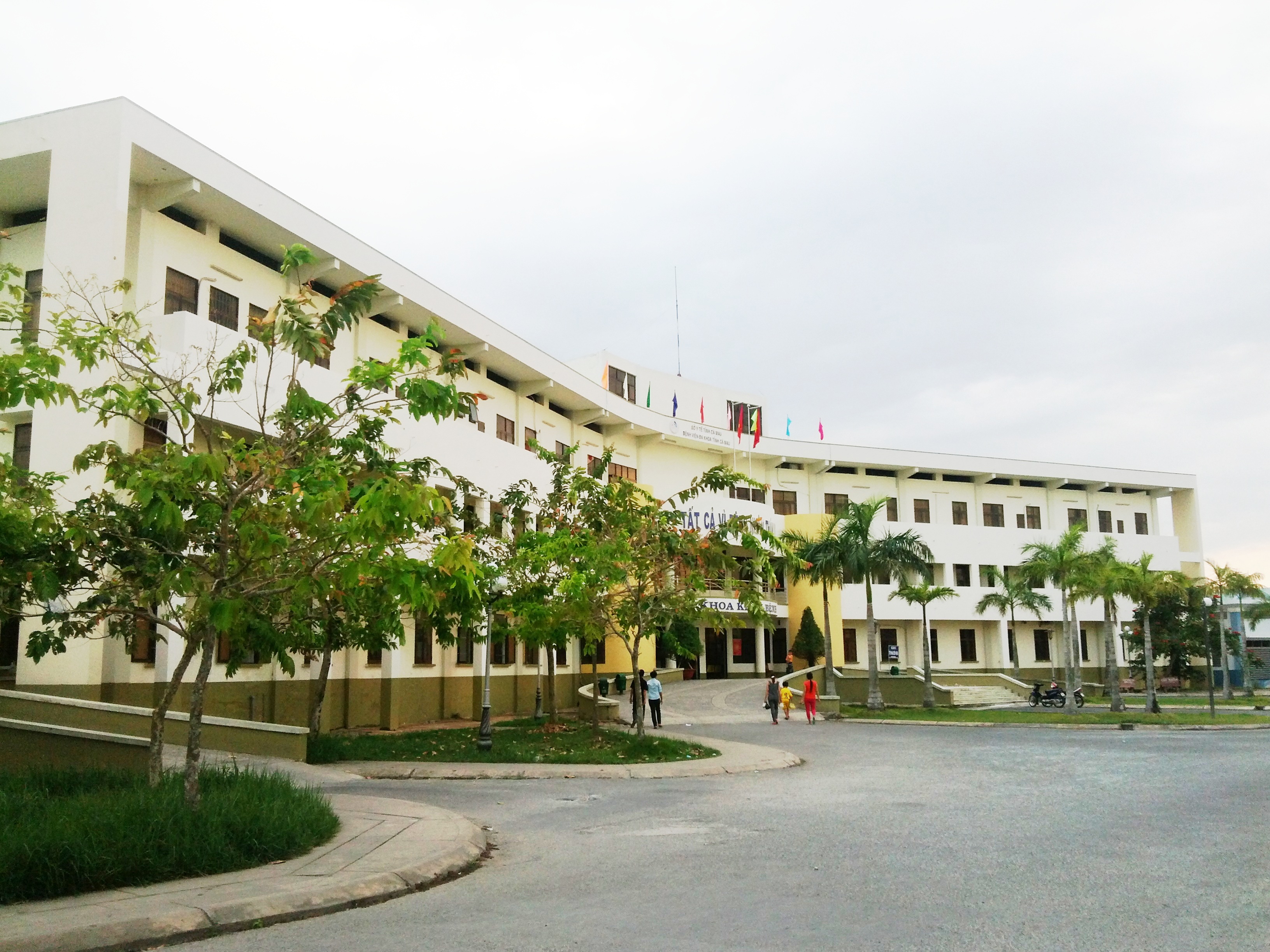 Ca Mau Hopital